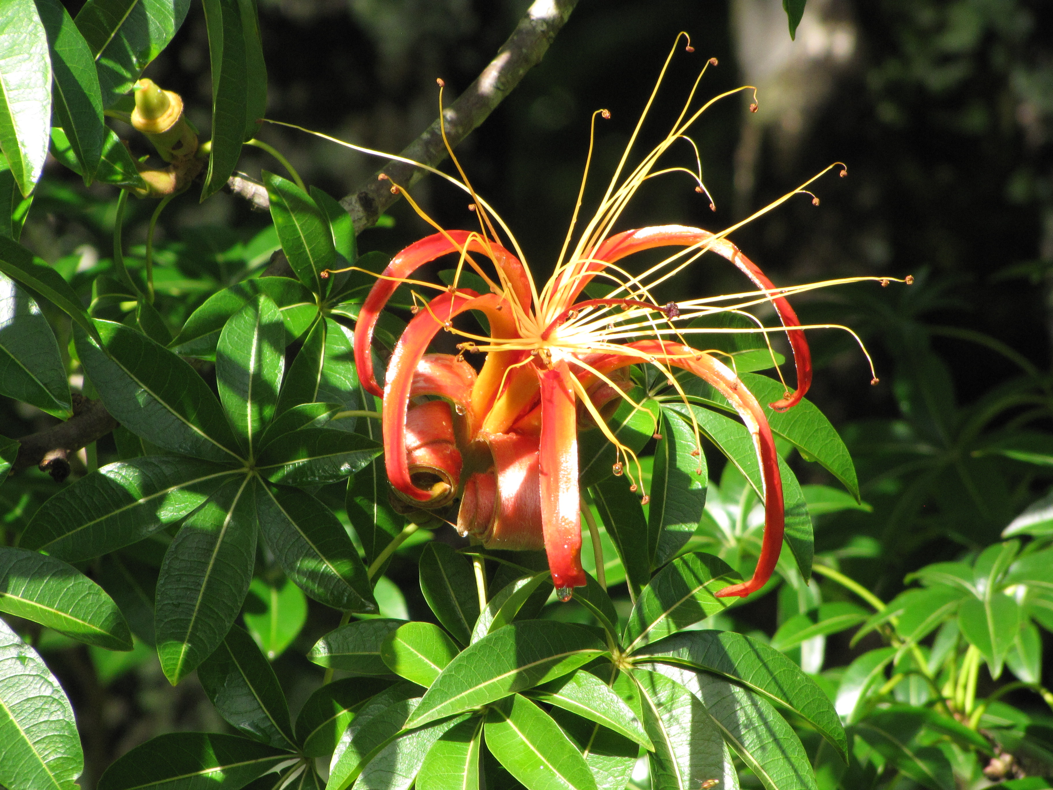 Adansonia madagascariensis - flower and leaves